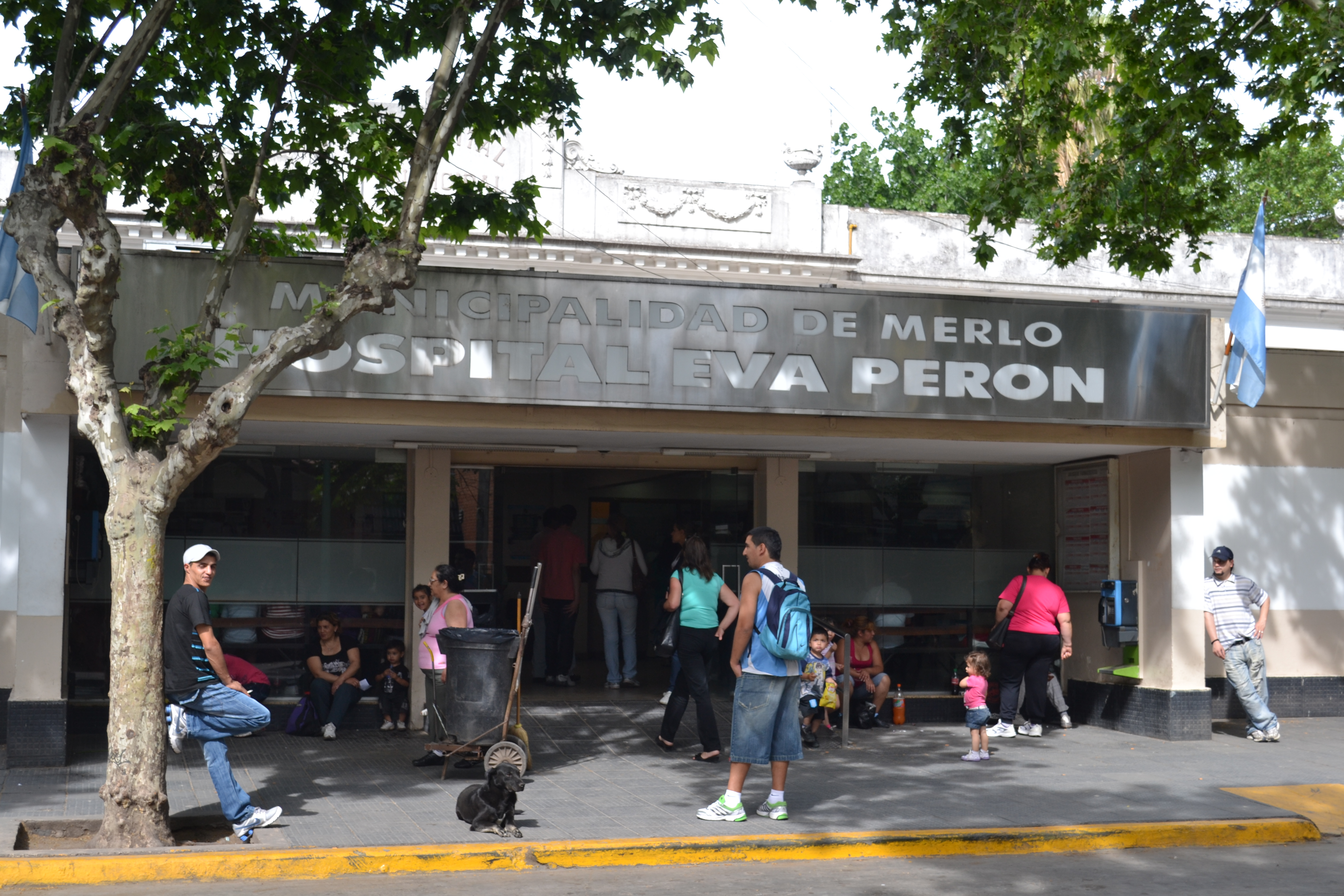 Hospital